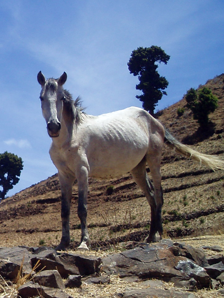 Mare of the rare feral Kundudo horse population in Ethiopia